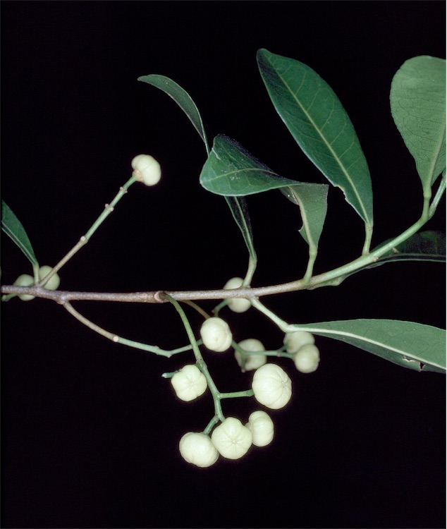 Fruit of Acronychia oblongifolia in Alex Floyd's garden, Coffs Harbour, New South Wales